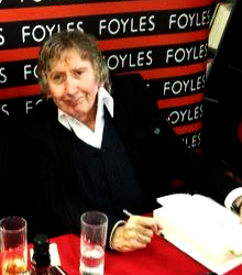 James Herbert at the Foyles book shop in London 2012. Signing copies of his last novel Ash.